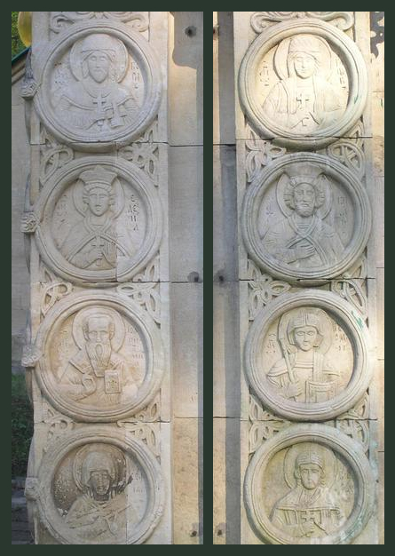 A. Matveev. The bas-reliefs-medallions. Temple-museum on the estate of P. I. Kharitonenko. 1912